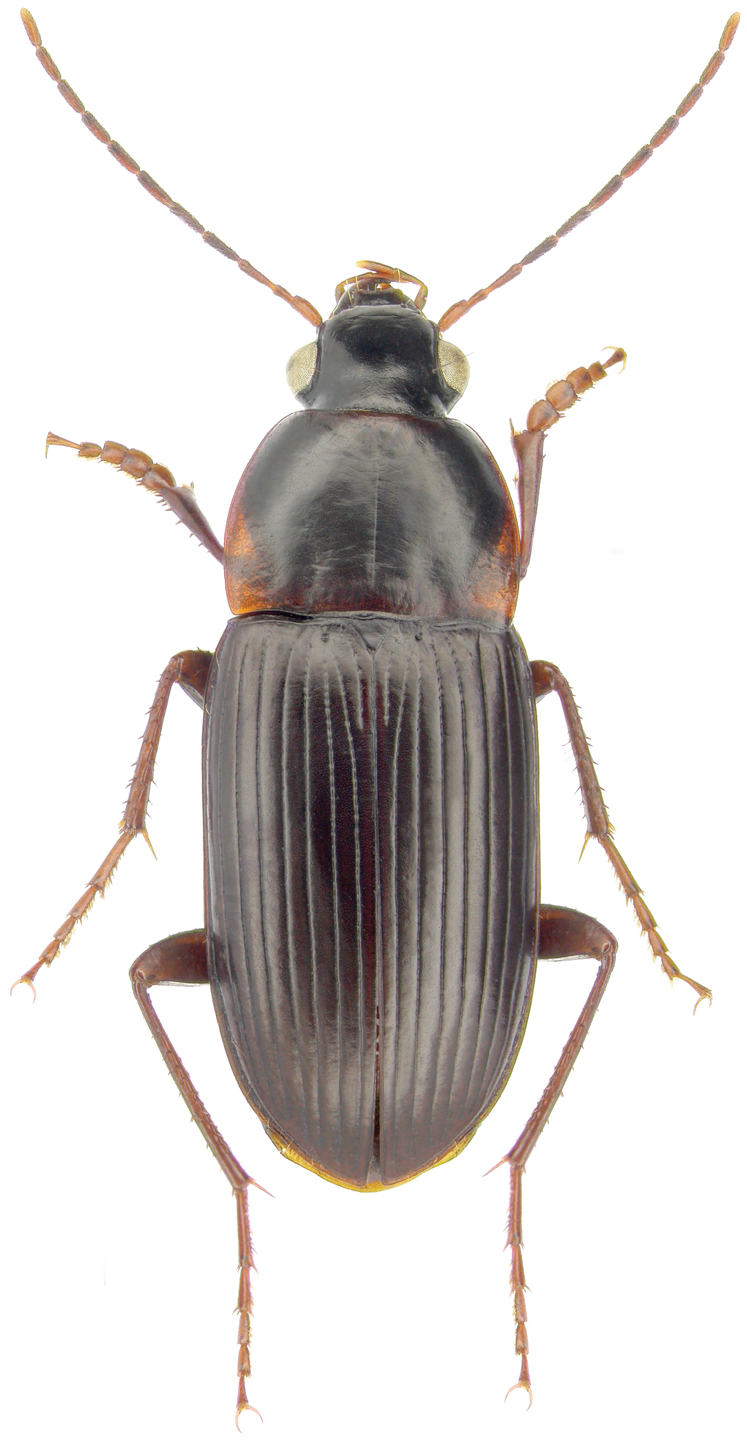 Lachnocrepis parallela (Say). This species is found in marshes and swamps in temperate eastern North America and is closely related to two species living under similar conditions in eastern Asia. The genus Lachnocrepis is another example of taxa exhibiting disjunct eastern Asia-eastern North America distributional patterns. Most current biogeographers agree that such disjunct patterns result from range restrictions of taxa associated with the mixed mesophytic forest during the mid-Tertiary.